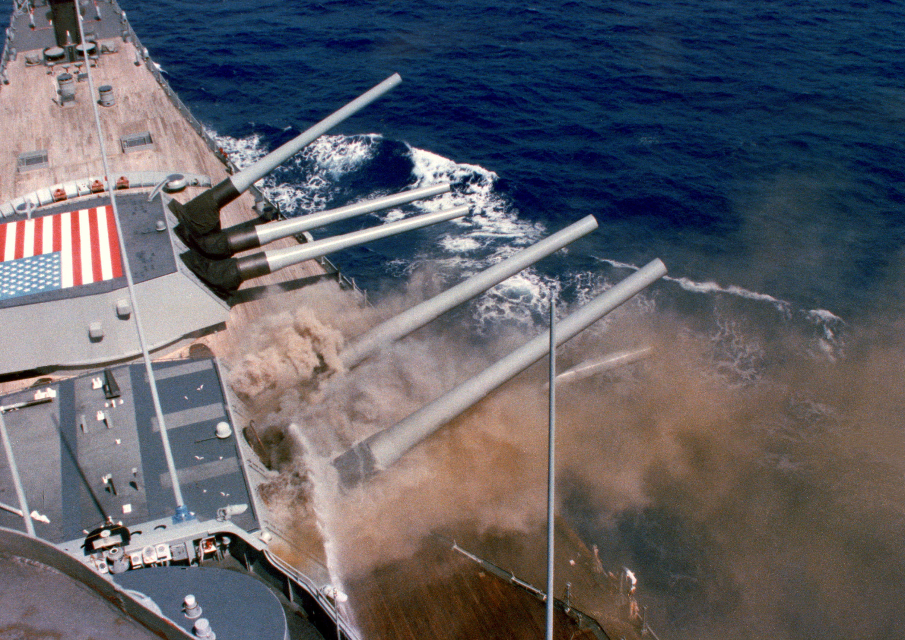 The #2 turret of the USS Iowa (BB-61) exploded on April 19, 1989, killing 47 members of the turret crew. The left gun of Turret One in the background is fully elevated as its crew tries to clear a misfire that occurred earlier by trying to coax the powder bags to slide backwards against the primer.